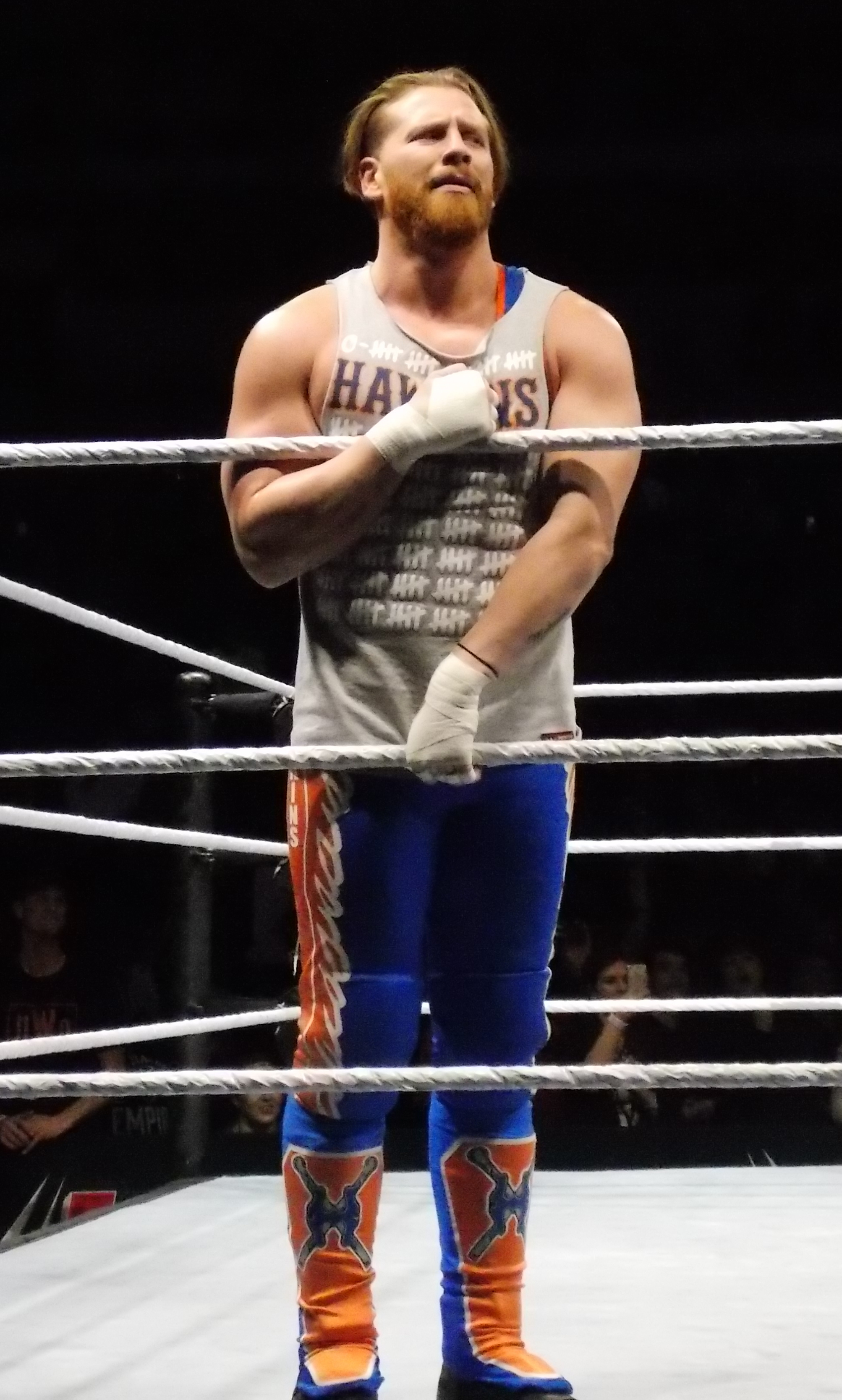 Curt Hawkins vs. Braun Strowman at a WWE Live Event House Show in Omaha, Nebraska, USA on Sunday, February 4, 2018